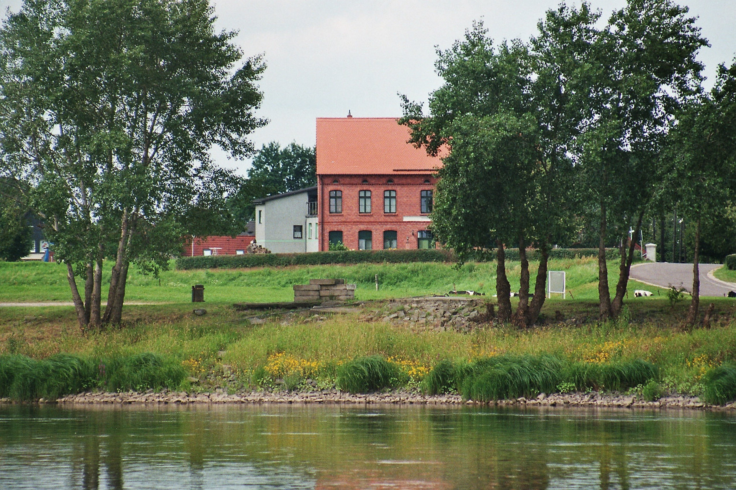 View to Heinrichsberg